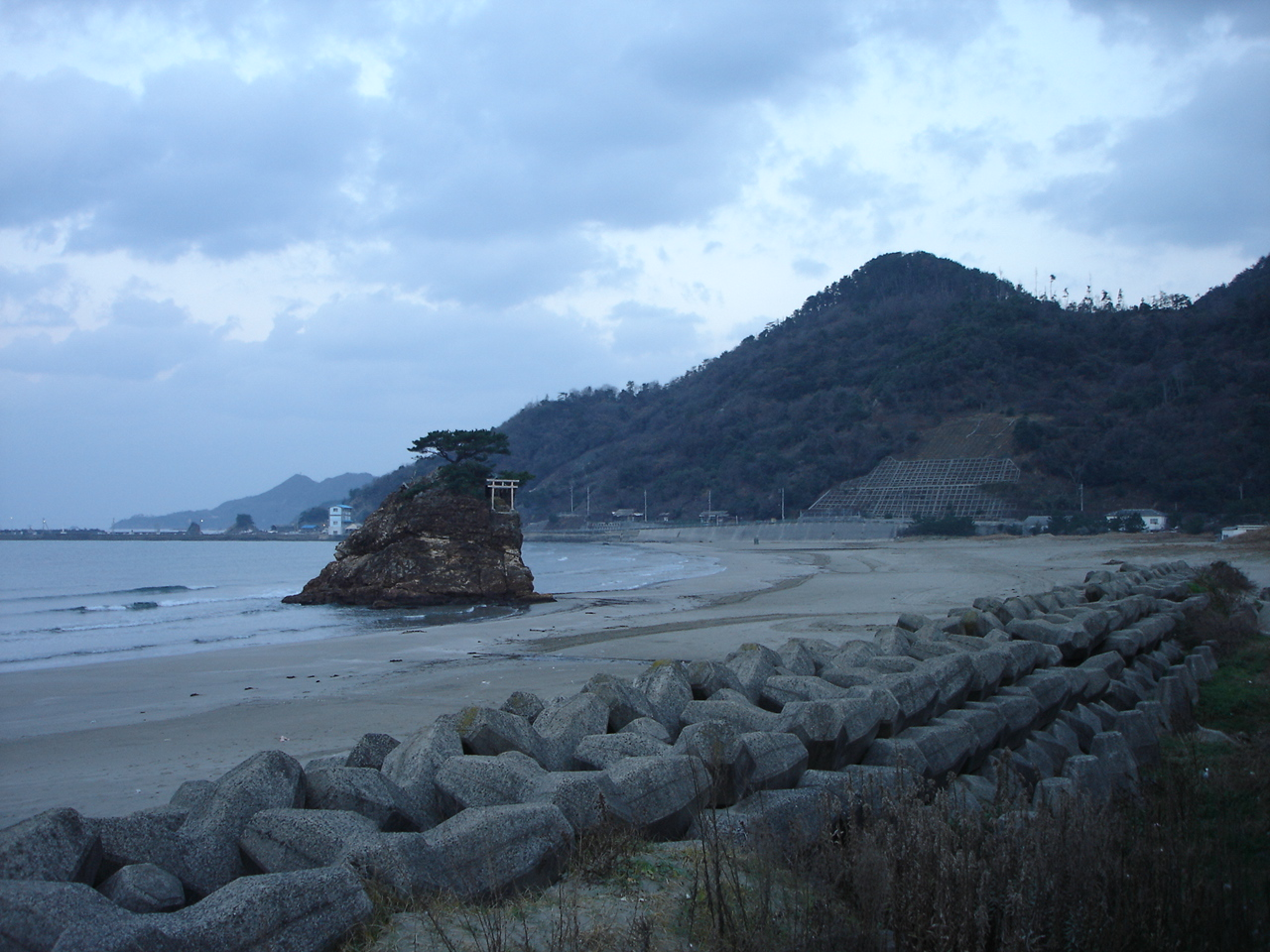 稲佐の浜（島根県出雲市大社町）2006年12月22日撮影 Inasanohama（Izumo city, Shimane pref, Japan）Photo 2006-12-22